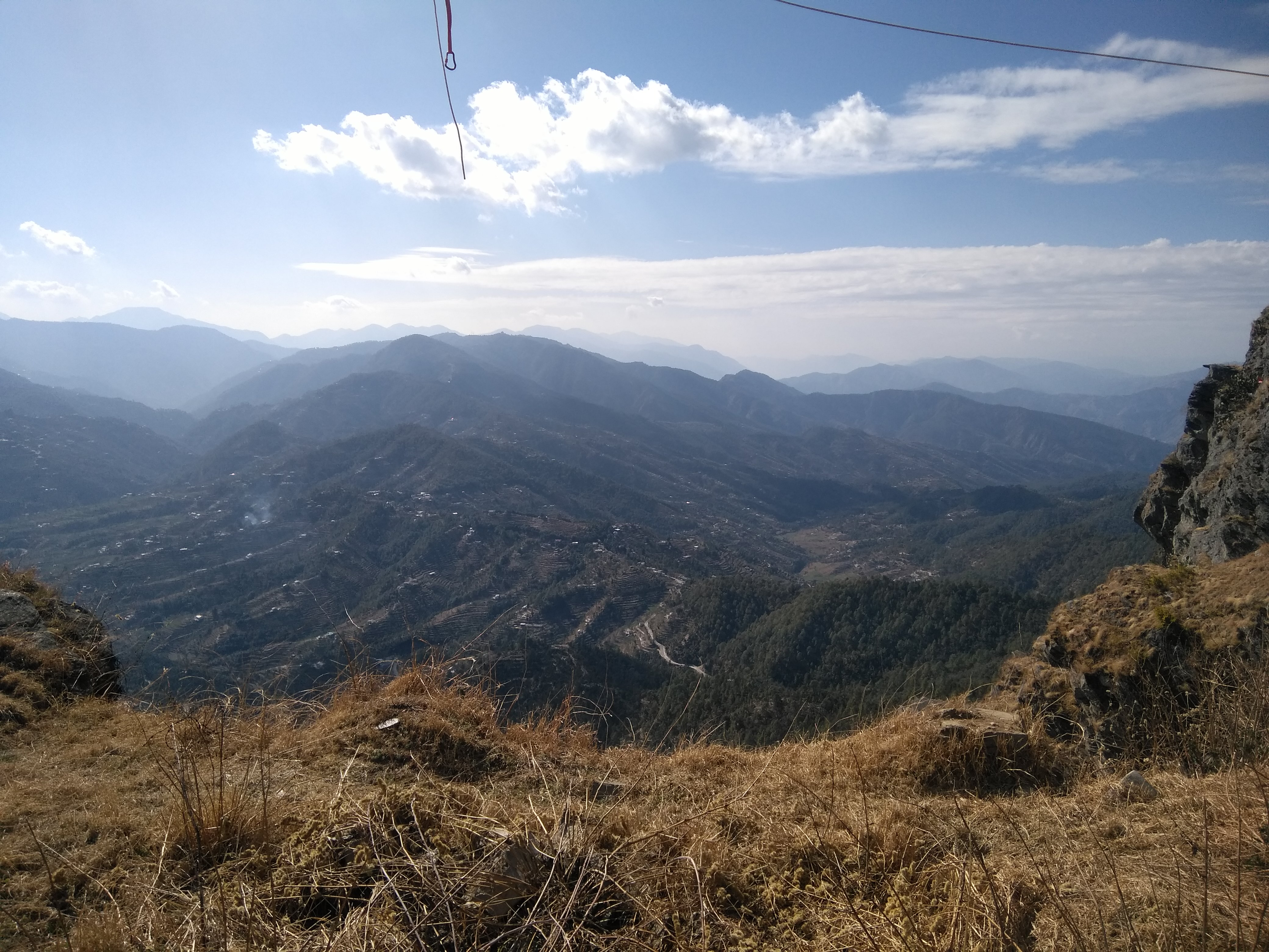 A beautiful view from Mukteshwar